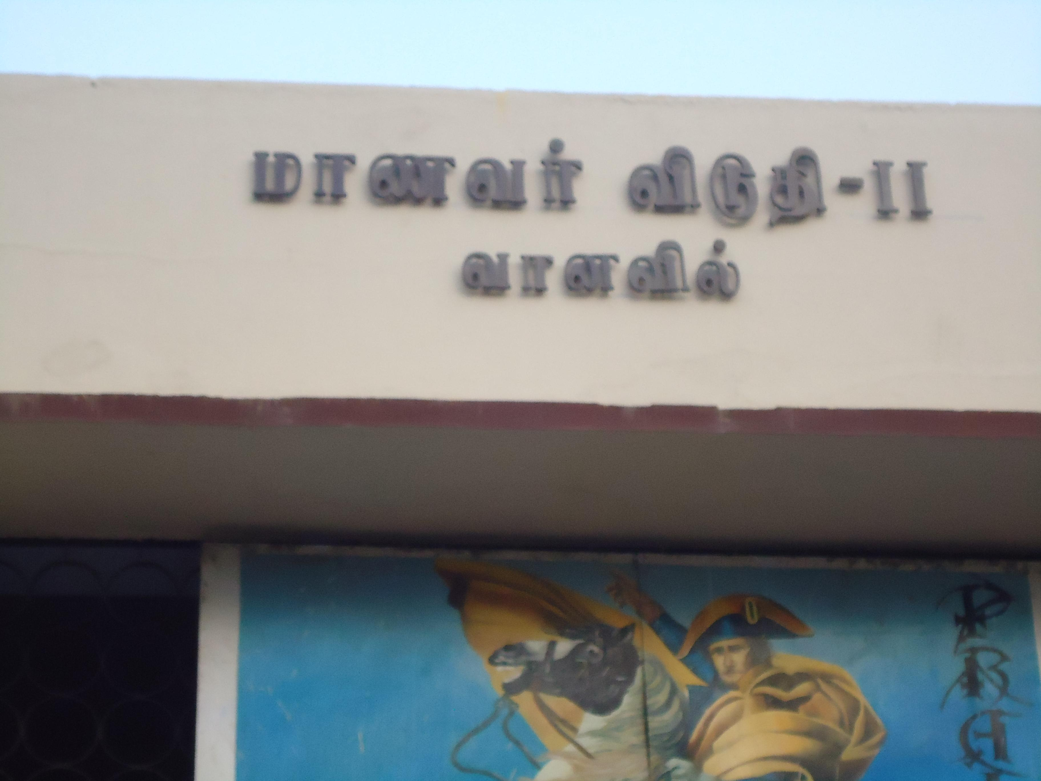 front view of coimbatore medical college mens hostel 2nd block